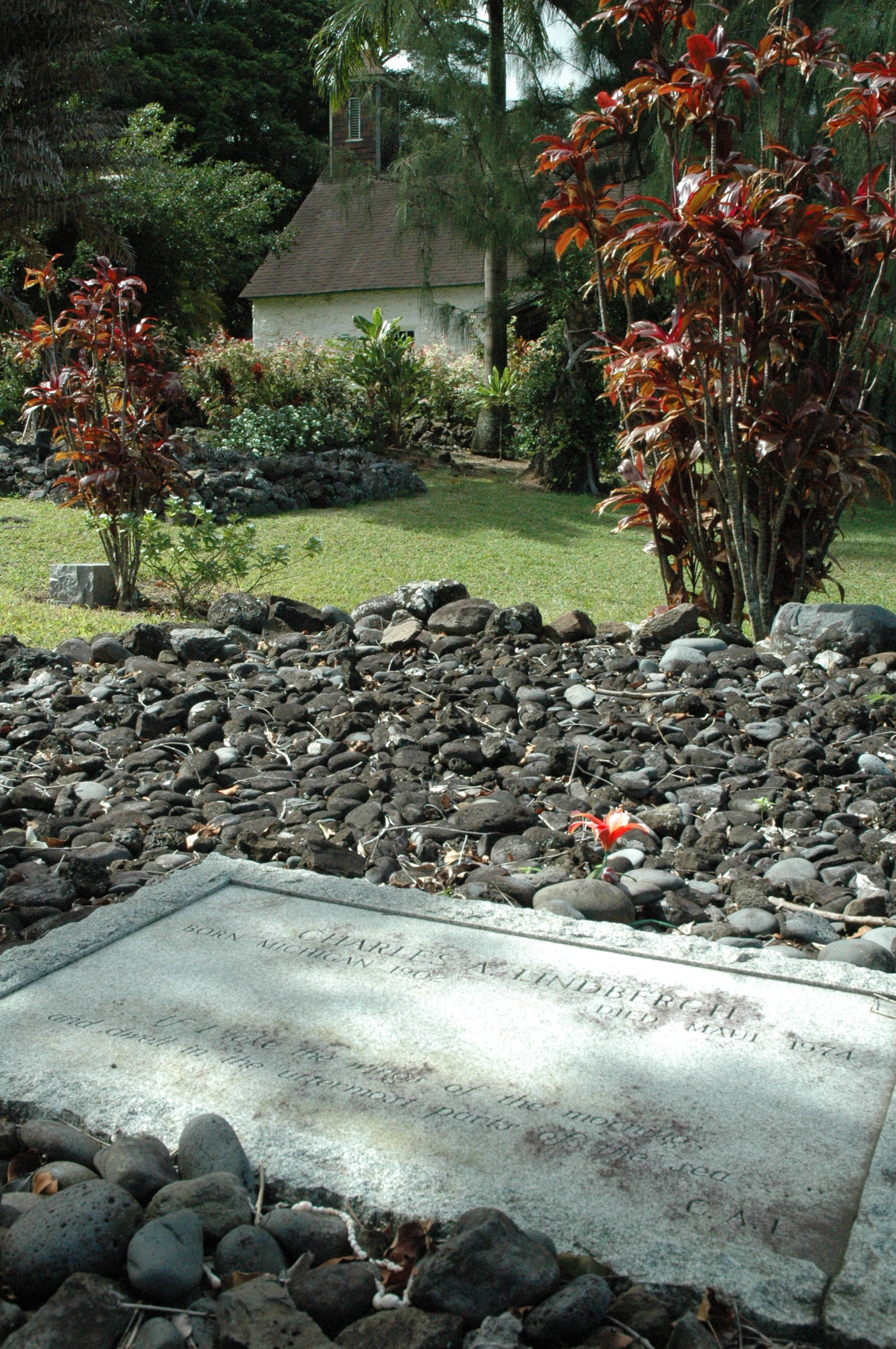 Charles Lindbergh gravesite. On the grounds of Palapala Ho'omau Church in Kipahulu, Maui off Highway 130 (The Road to Hana).